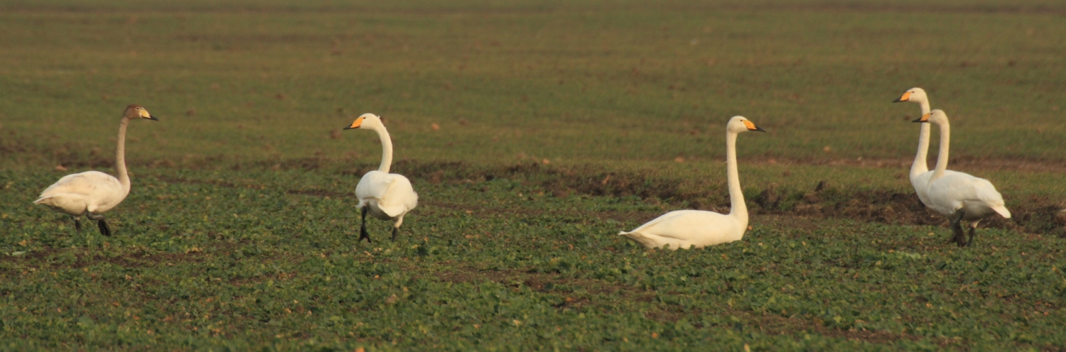 Whooper swans (Cygnus cygnus), Szárföld, Hungary